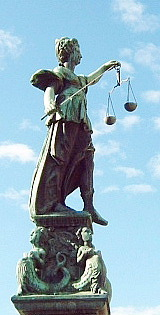 Source: myself Peng 11:35, 25 May 2005 (UTC) Date:25.05.05 Bild: Justitia, the goddess of Justice (at the top of the fountain on the Römerberg in Frankfurt/Main) deutsch: Justitiafigur auf dem Gerechtigkeitsbrunnen am Frankfurter Römerberg LIZENZ